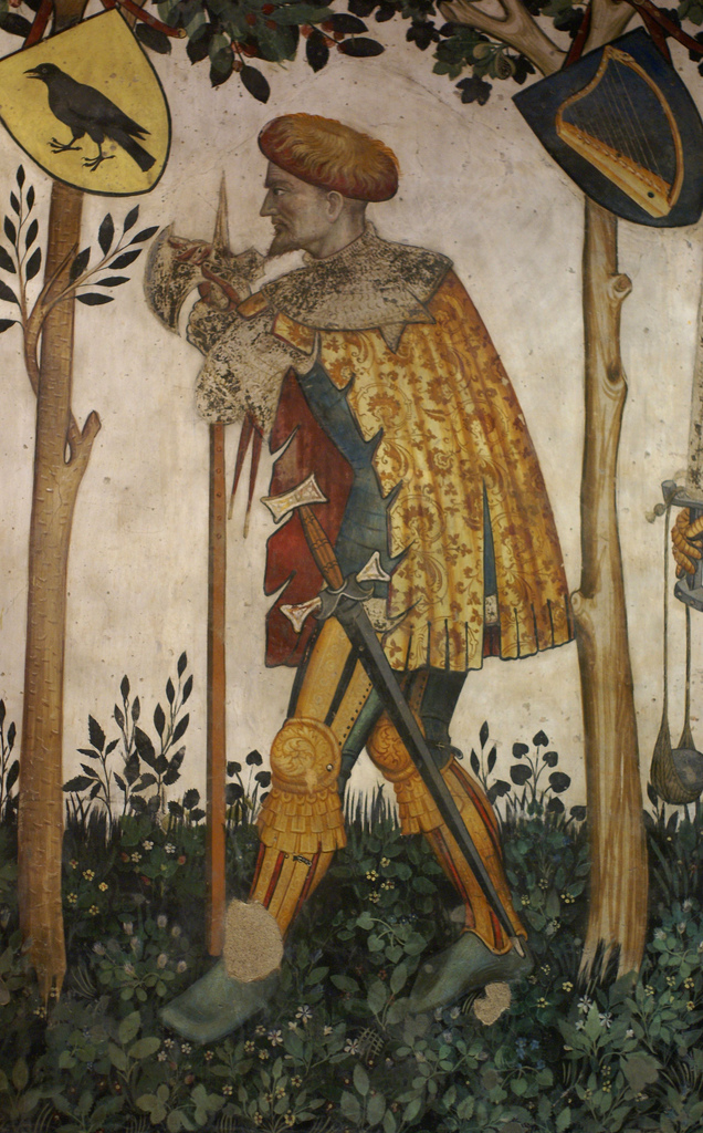 Thomas II of Saluzzo as Joshua